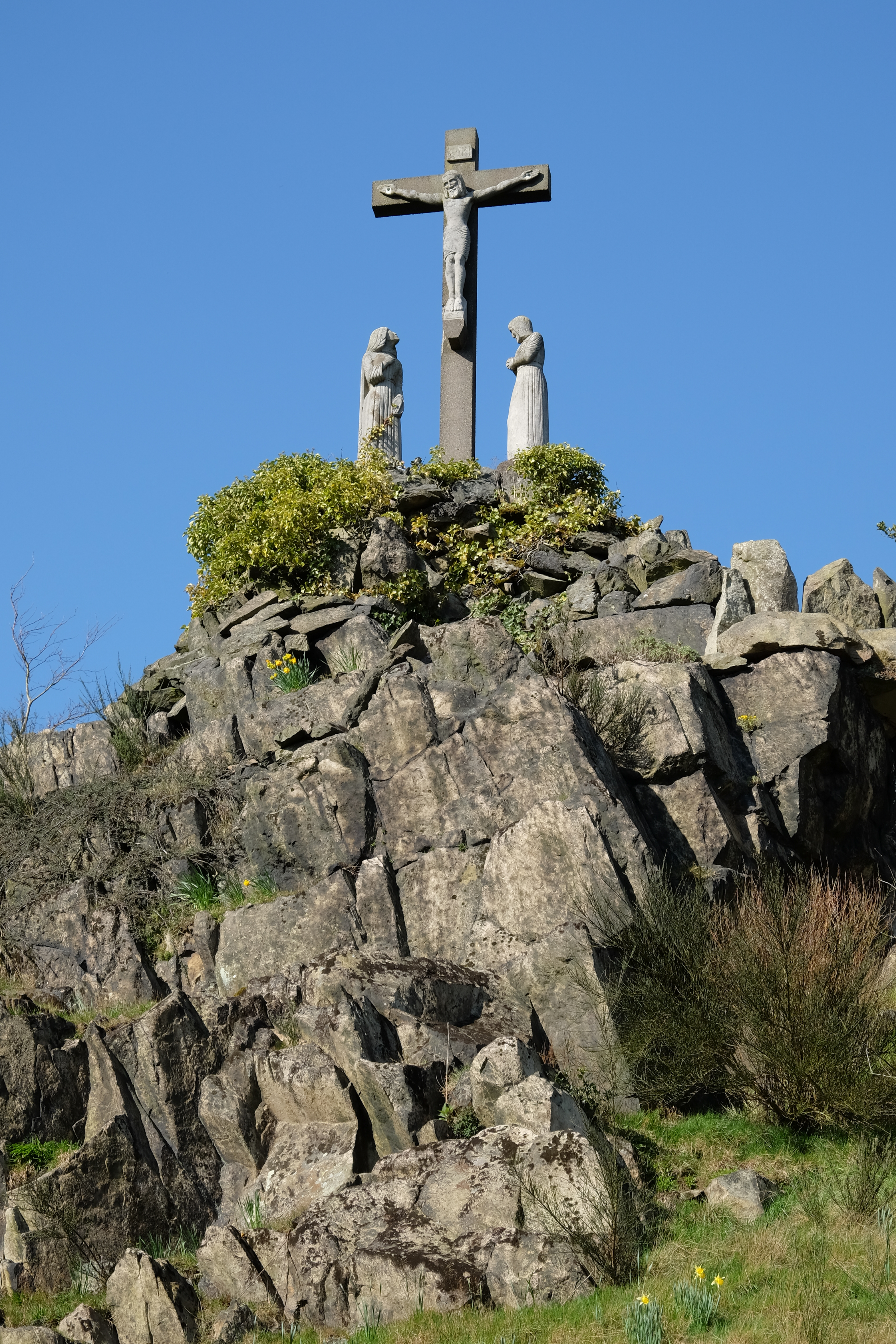 High Calvary by Father Vincent Eley, 1965, at Mount Saint Bernard Abbey, Leicestershire. The crucified Jesus flanked by Our Lady and Saint John.